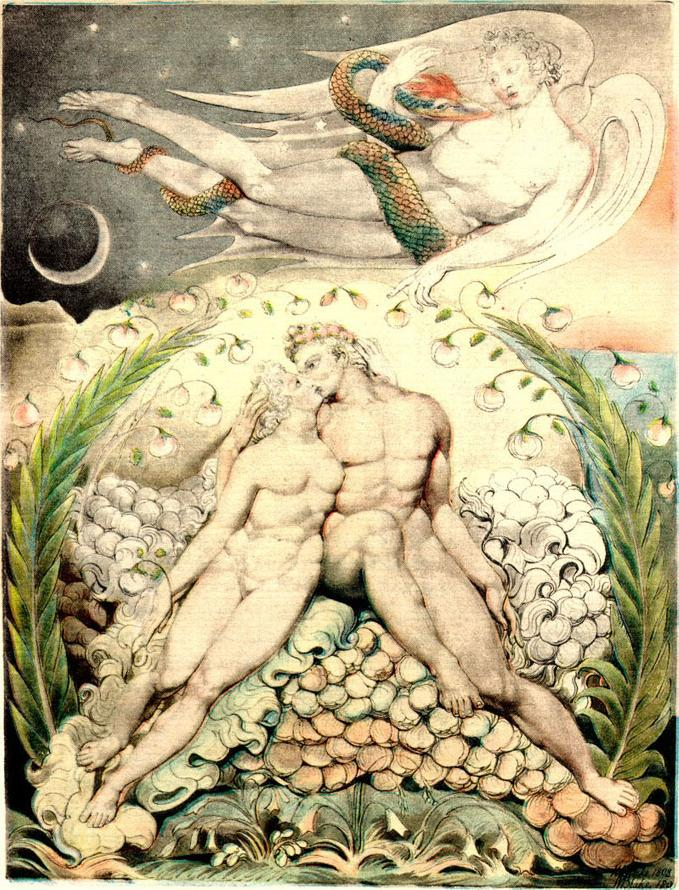 "Satan Watching the Caresses of Adam and Eve" — William Blake (1757-1827); William Blake's illustrations of "Paradise Lost", 1808. Pen; watercolor on paper, 50.5 × 38 cm. Museum of Fine Arts, Boston. Satan is shown as a fallen angel. He is holding the serpent and probably talking to it. Adam and Eve kiss and make love. Satan envies their Paradise. Watercolor on paper , collection of Museum of Fine Arts, Boston, Mass. USA